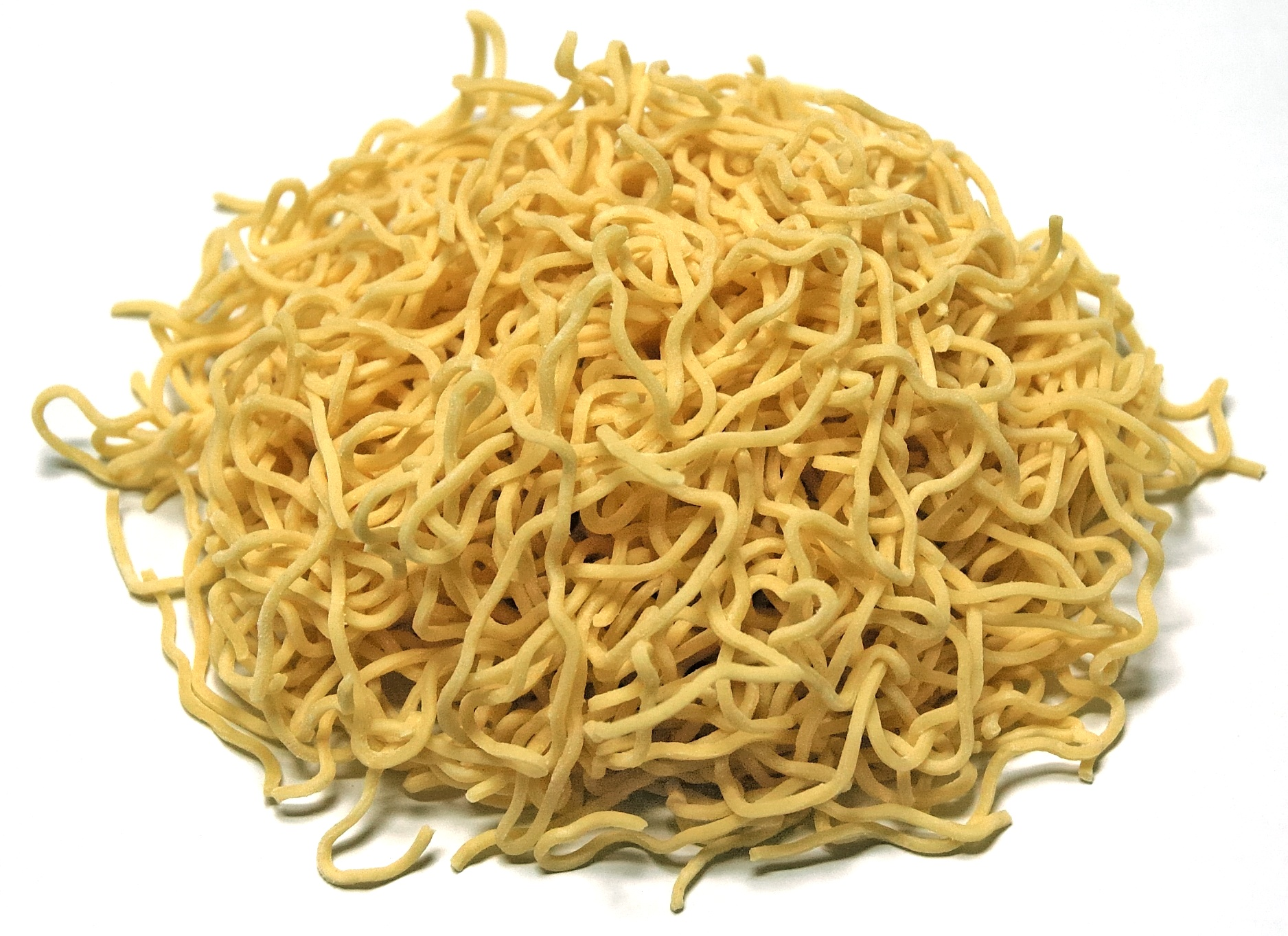 fresh ramen noodle (ラーメンの生麺)